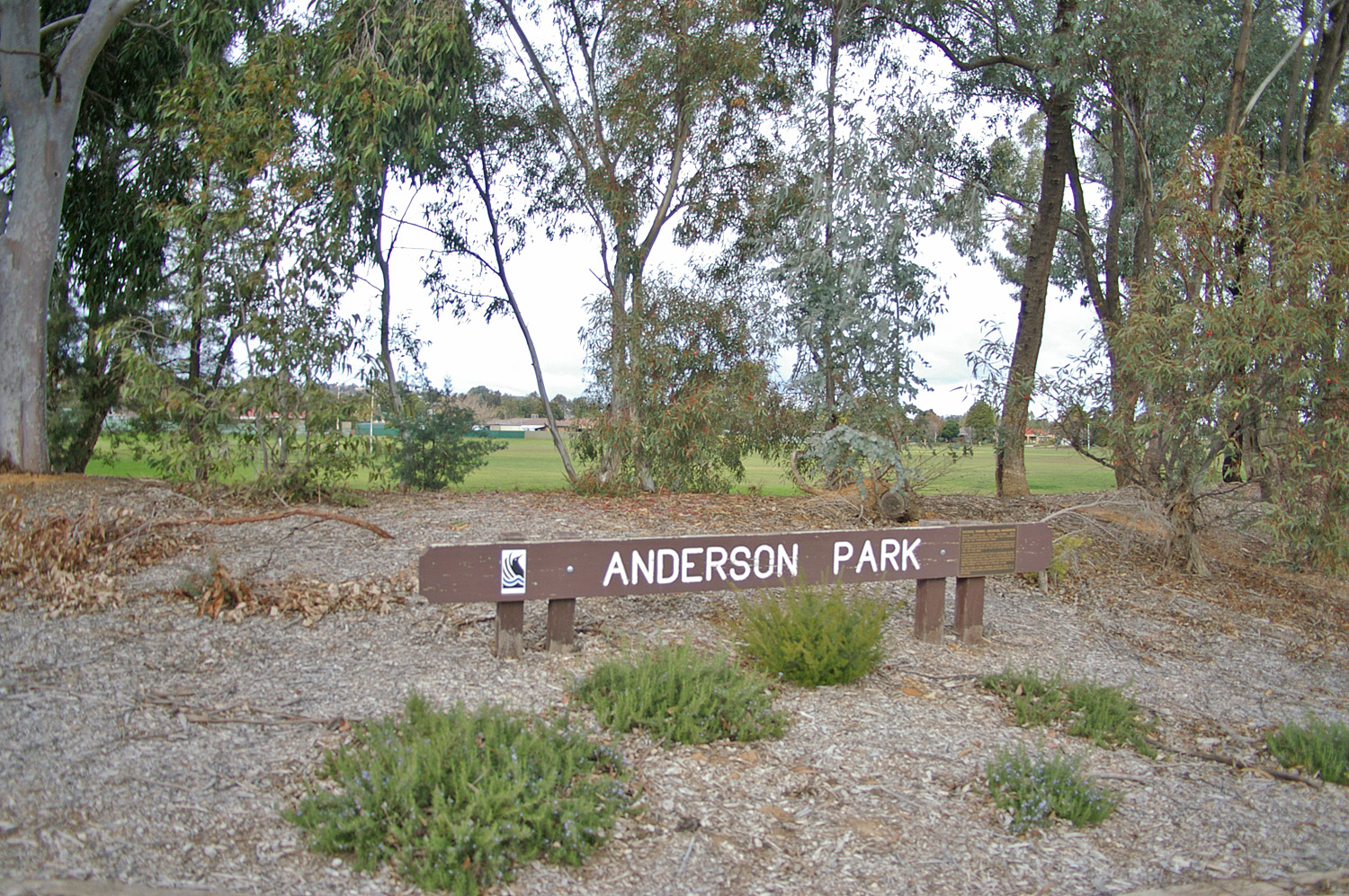 Anderson Park, Wagga Wagga, New South Wales